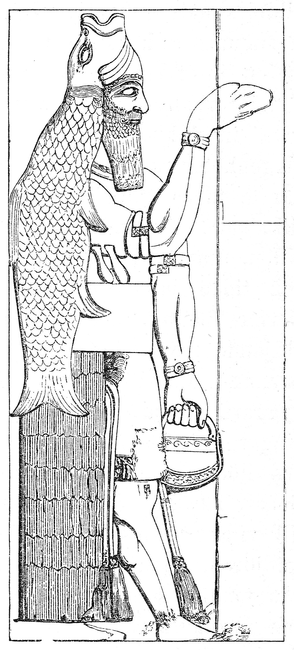 Illustration from "Illustrerad verldshistoria utgifven av E. Wallis. volume I": The fish-god Dagon